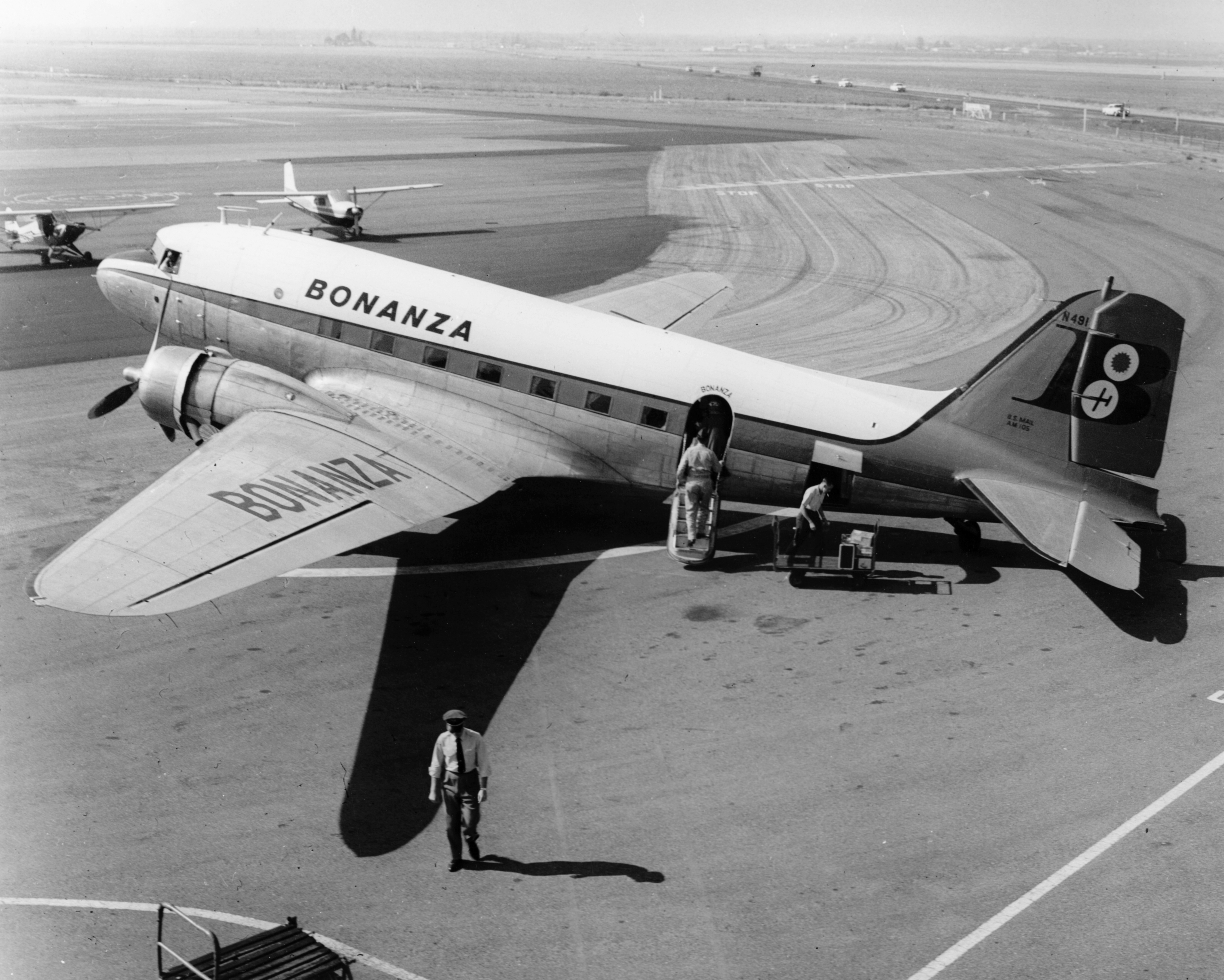 There are no known copyright restrictions on this image. All future uses of this photo should include the courtesy line, "Photo courtesy Orange County Archives." Comments are welcome after reading our Comment Policy . Acc#2003-7